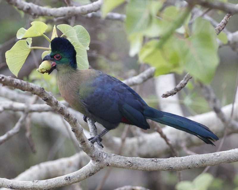 Purple-crested Turaco with the fruit of a Large-leaved rock fig, in the private Kwa Madwala Game Park, Mpumalanga, South Africa Distribution of race: On Avibase